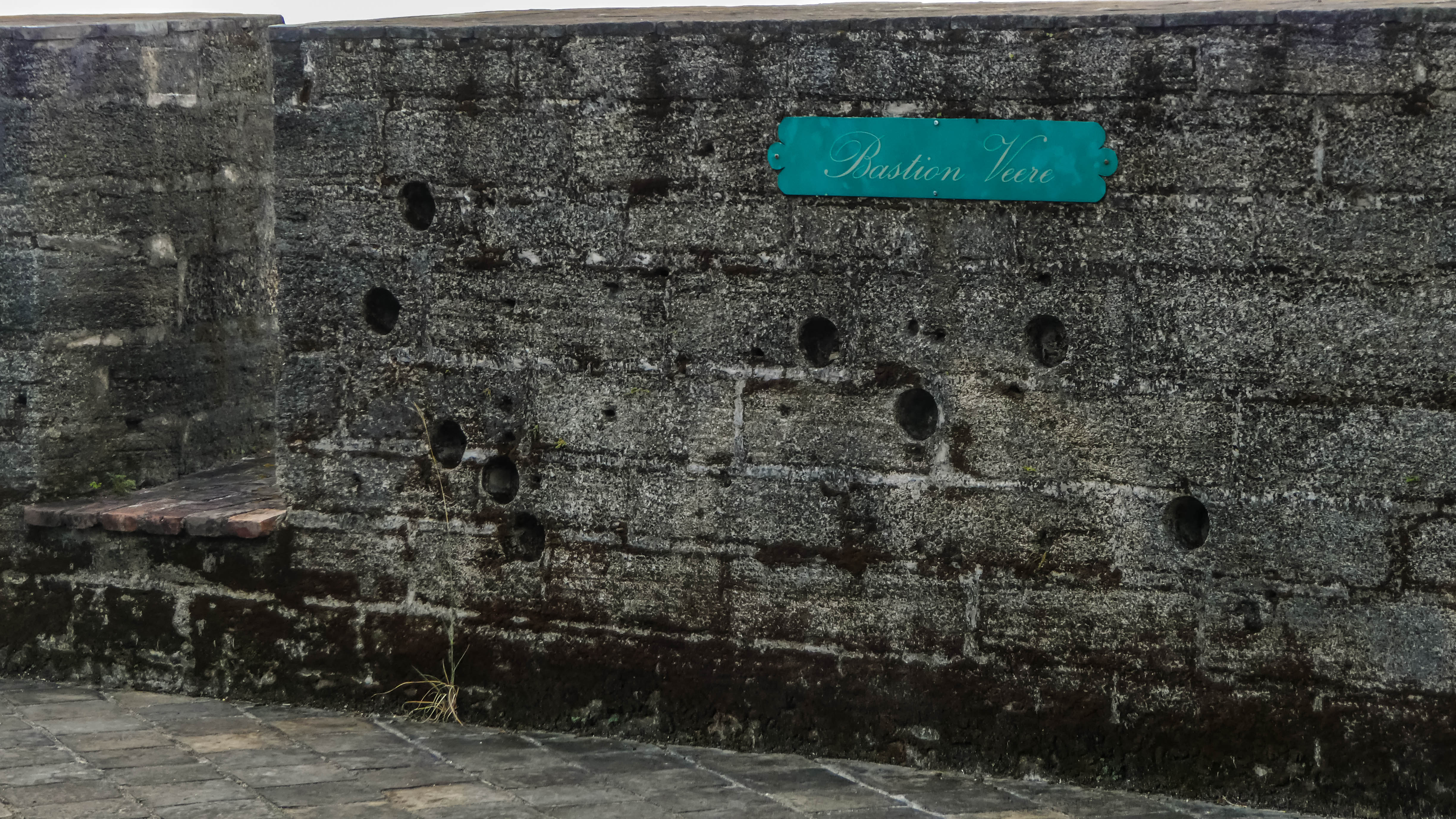 Bullet holes that remind of the December Murders on the Veere bastion of Fort Zeelandia. Some of the bullet holes have been drilled out as part of the official investigation into the December Murders.